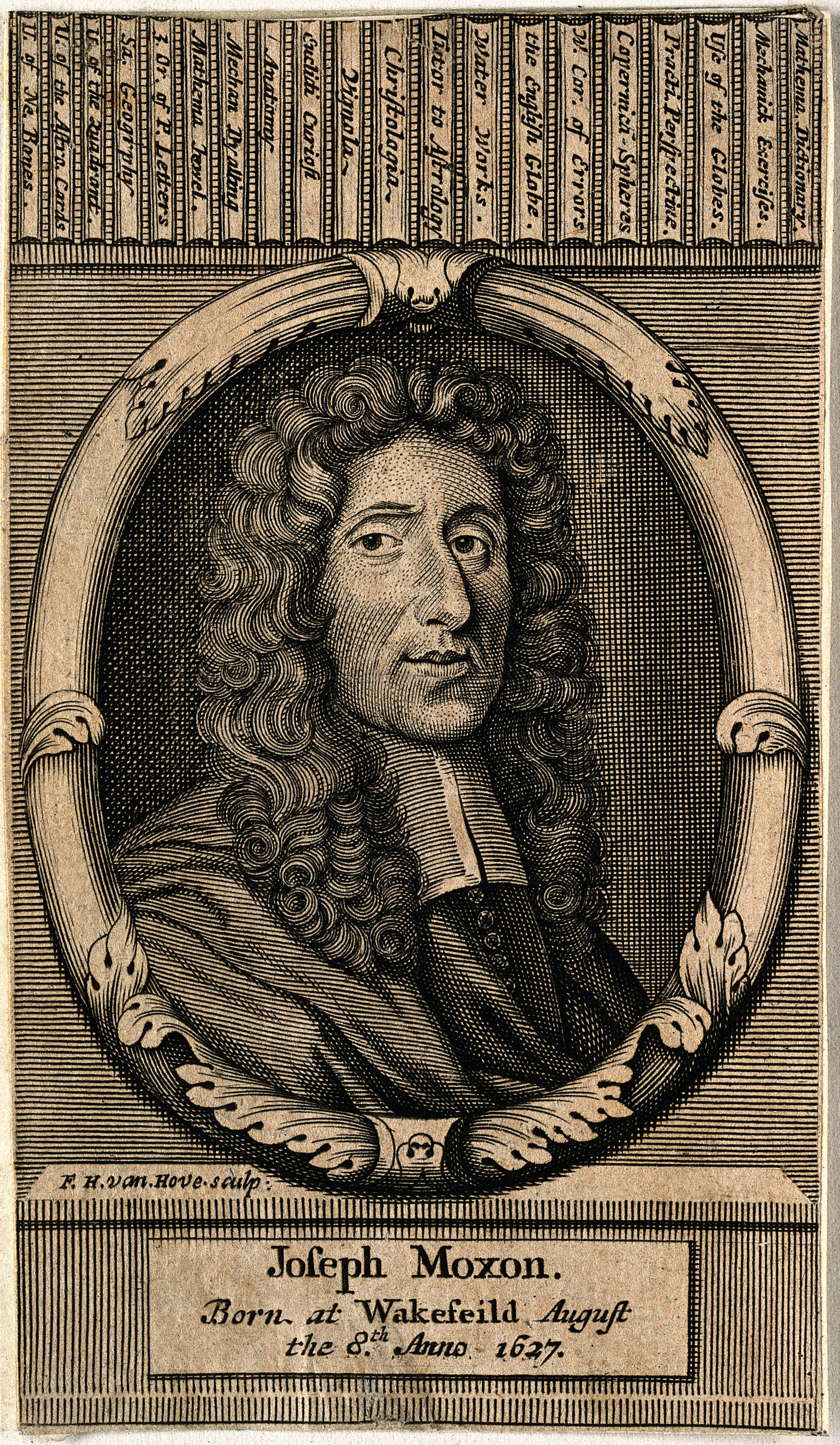 Joseph Moxon. Line engraving by F. H. van Hove, 1692. Iconographic Collections Keywords: portrait prints; engravings; Joseph Moxon